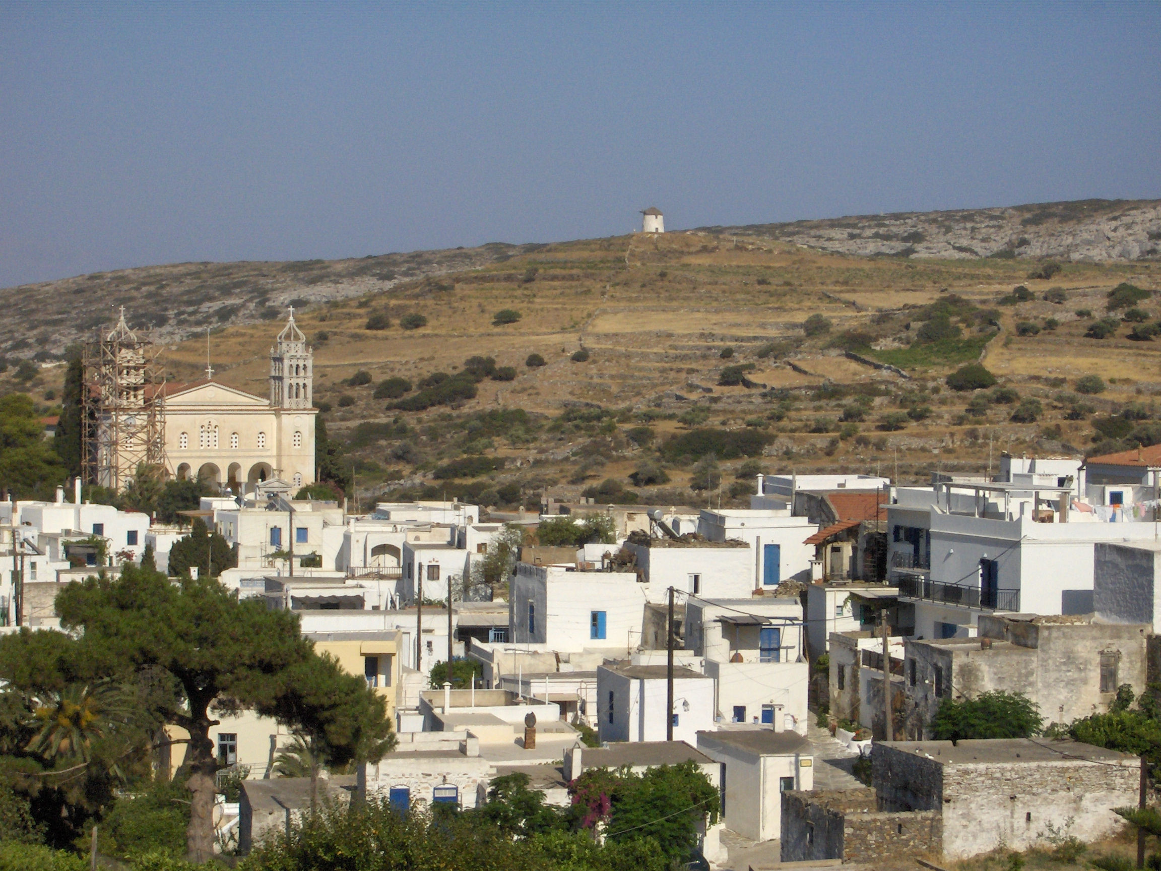 View of Leykes, a village in the island of Paros.